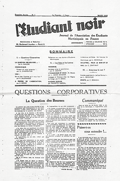 Cover of L'Etudiant noir, issue 01, published by the Association des étudiants martiniquais en France in Paris.